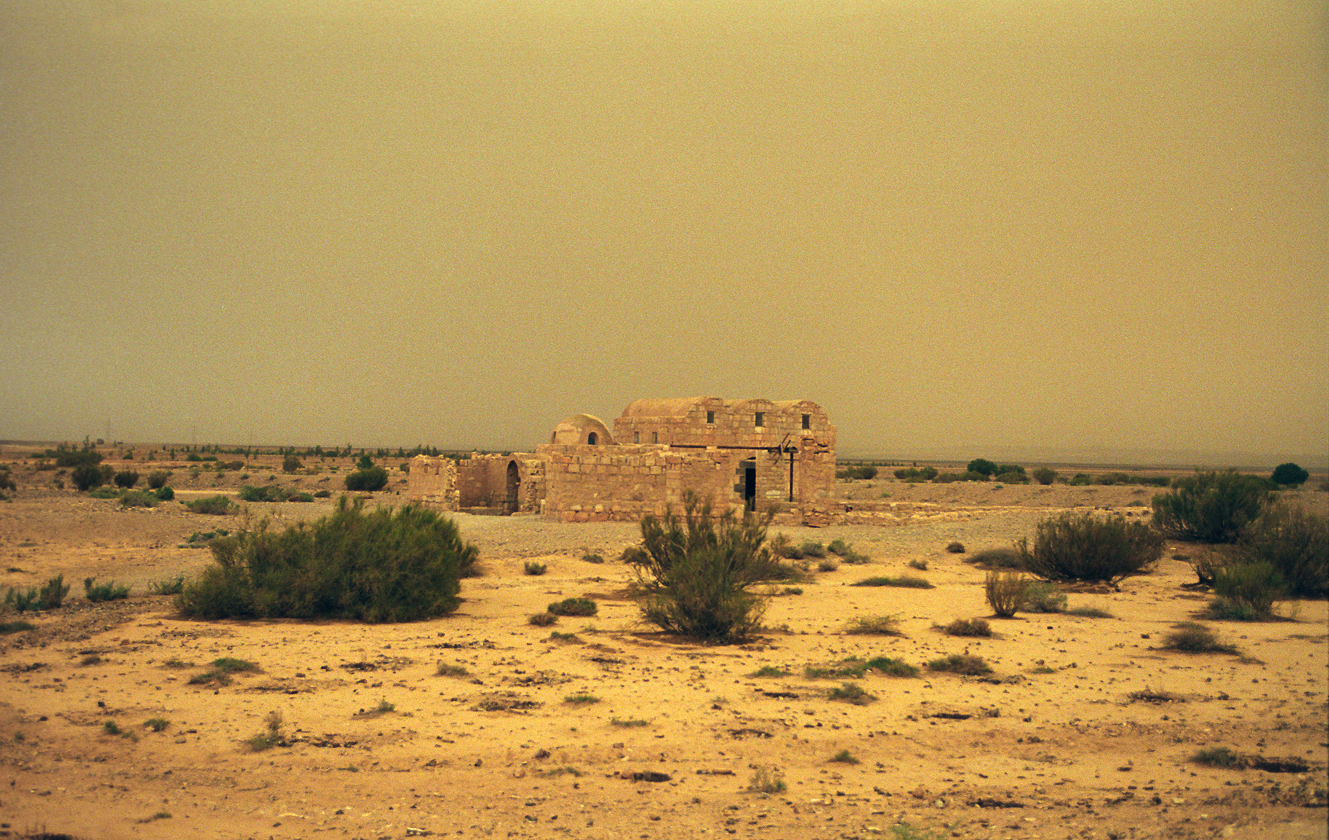 Qasr Amra, desert castles - Jordan